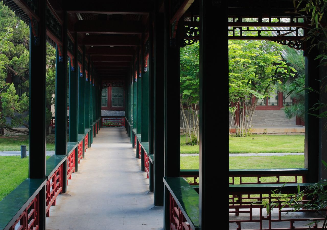 The Tsinghua University campus in Beijing, China.